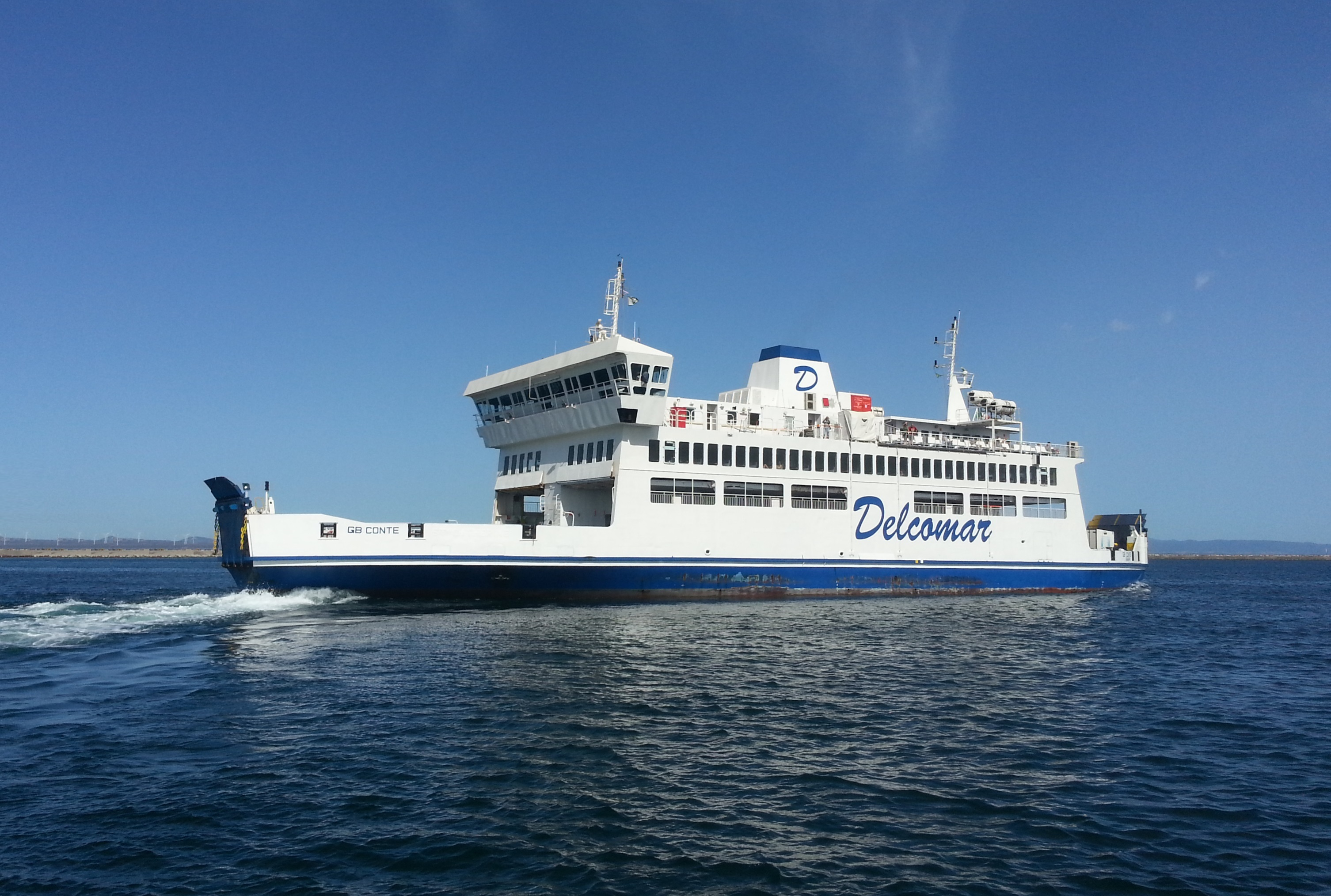 Car and passenger ferry GB Conte, former MV St Catherine departing from Carloforte harbour (Isola di San Pietro, Sardinia) in direction to Portovesme